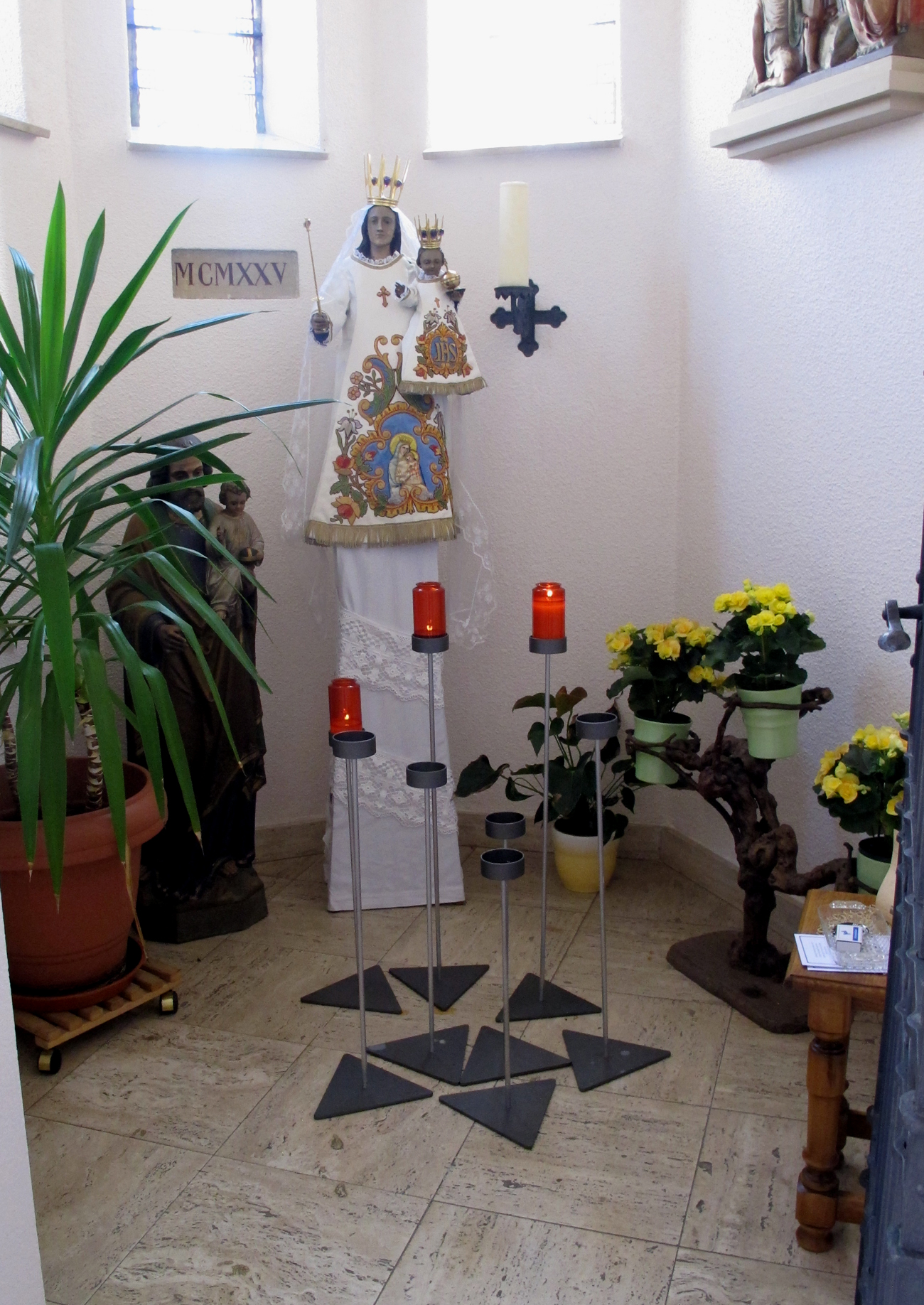 View into the former baptistery of the church in Schwebsange, Luxembourg